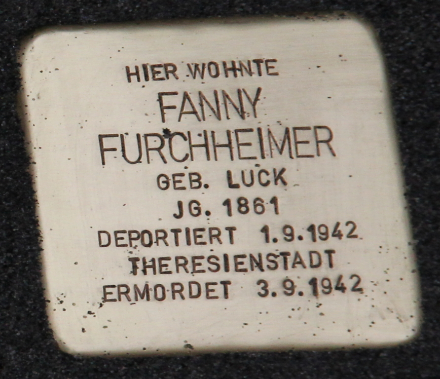 Stolpertein placed in Bad Mergentheim